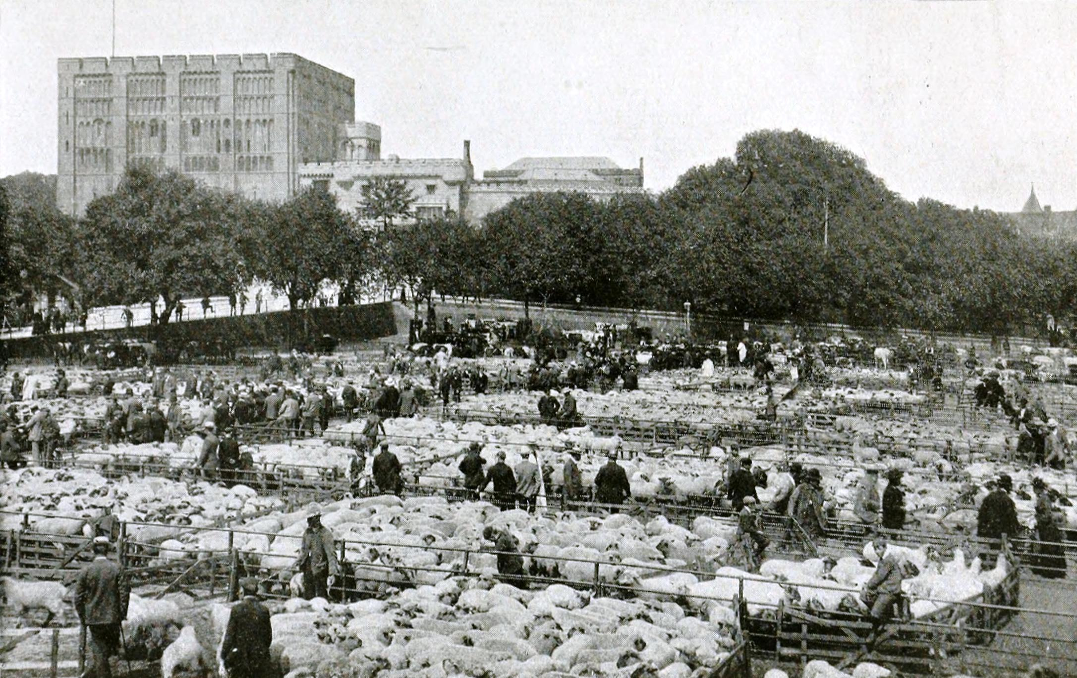 obtained from (Jarrold's Official Guide to Norwich (1900)